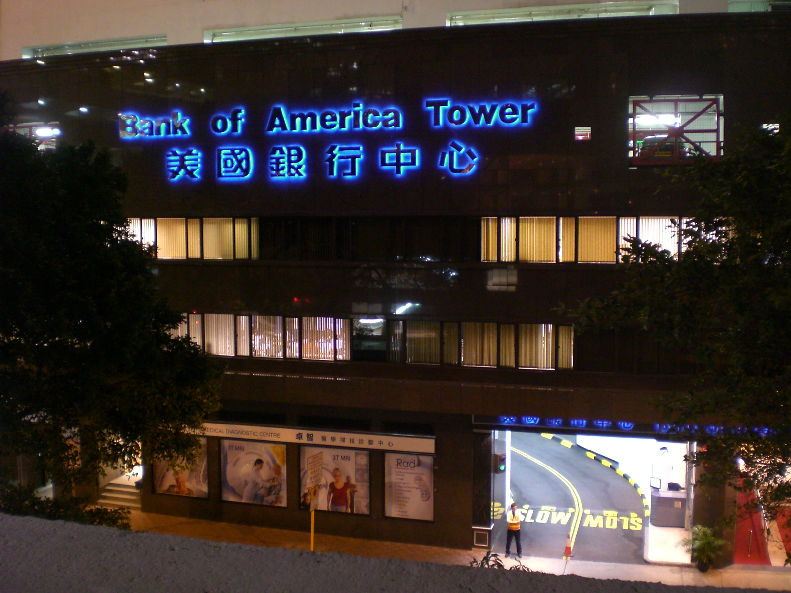 美國銀行中心 Bank of America Tower, Harcourt Road, Hong Kong